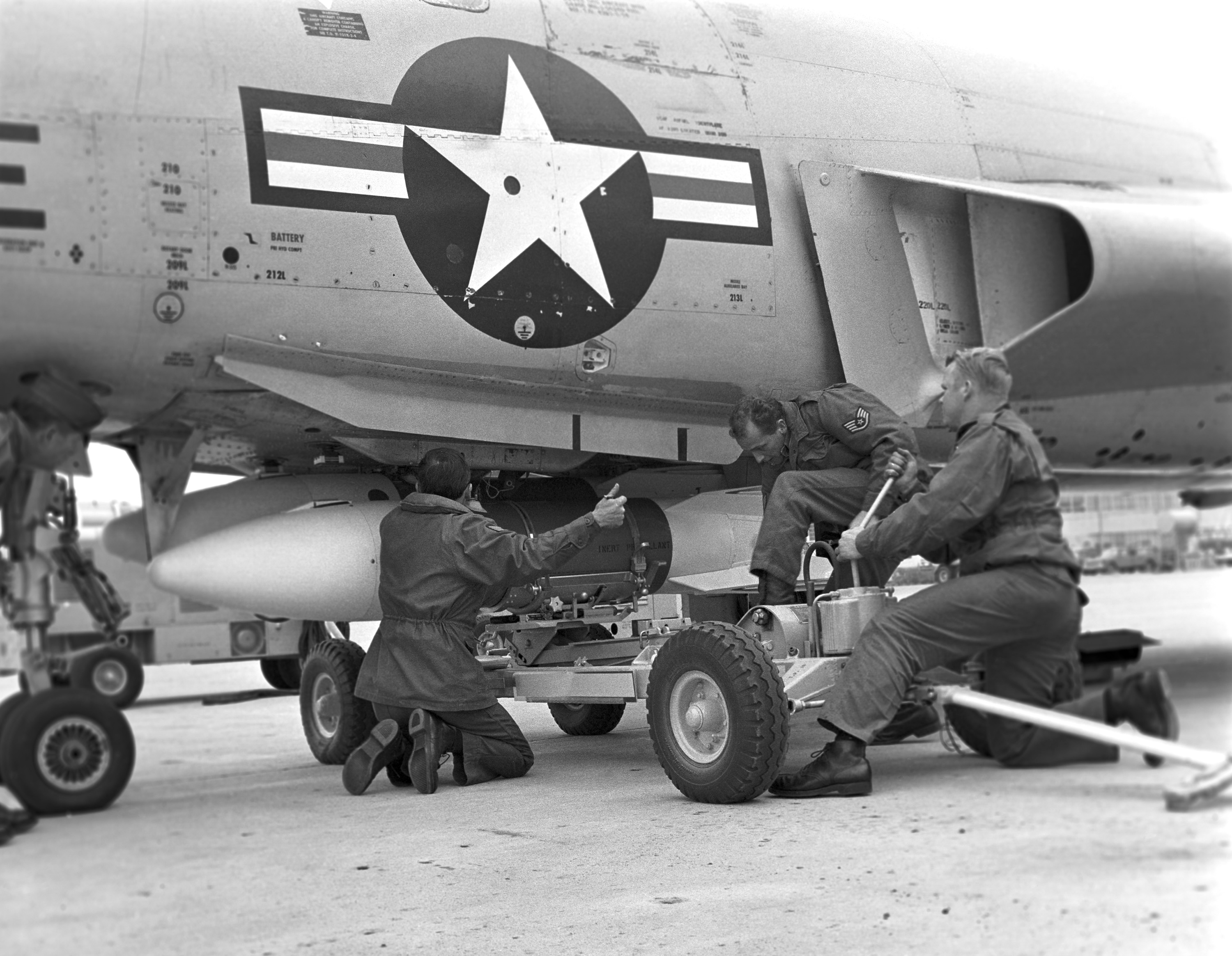 U.S. Air Force Weapons Handlers Tech. Sgt. William Gilge and Tech. Sgt. Kenneth Smallerz, both assigned to the 119th Fighter Wing "The Happy Hooligans", North Dakota Air National Guard, upload training AIR-2 Genie weapons onto a McDonnell F-101B-80-MC Voodoo aircraft (s/n 57-0252), under the watchful eye of a competition judge, during the "William Tell" weapons competition at Tyndall Air Force Base, Florida (USA), in 1970.